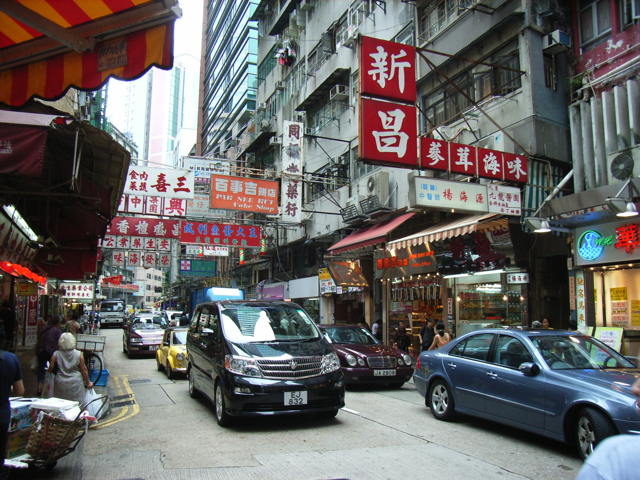 Wan Chai Road, Hong Kong Created by Jam Mei SUM